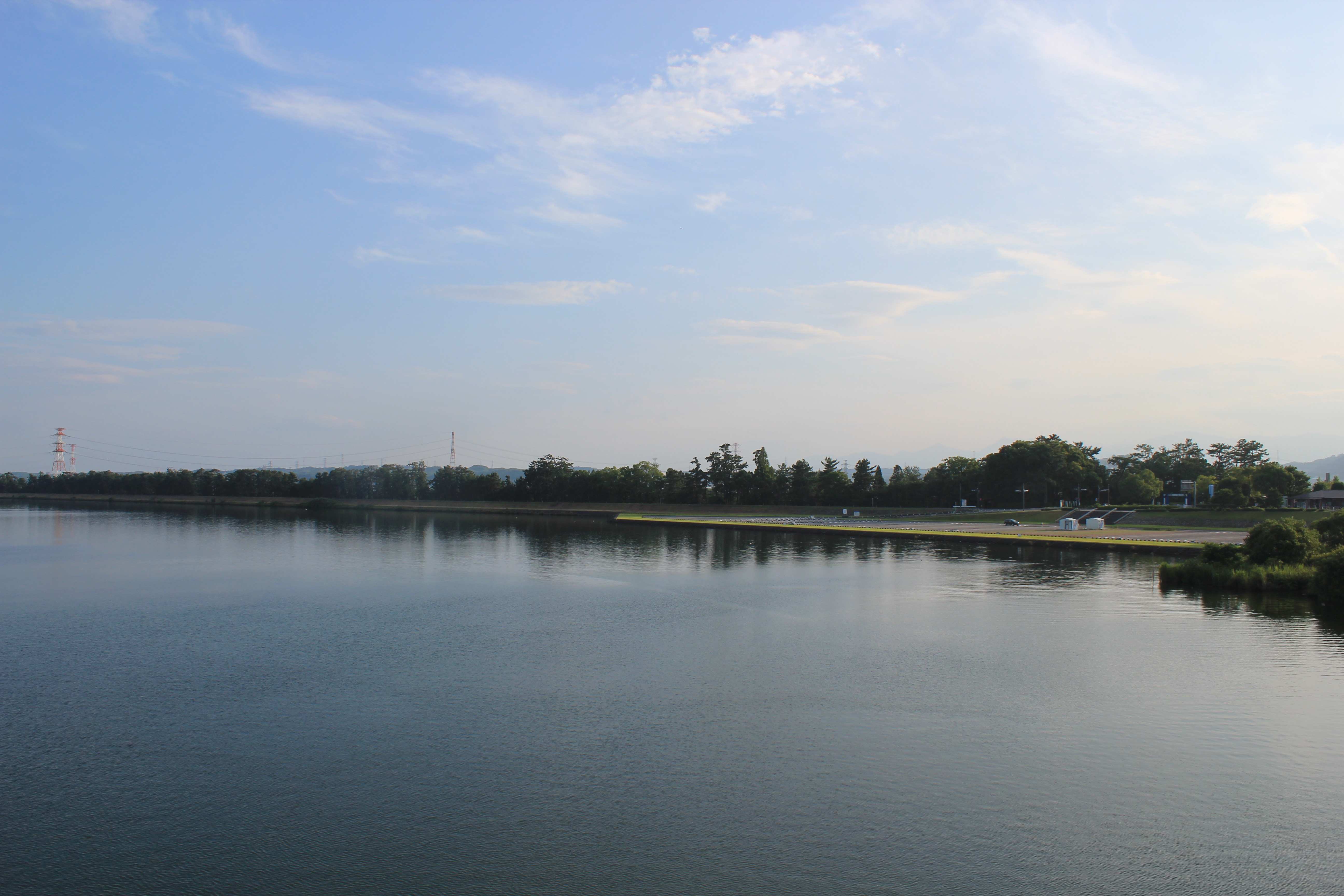 This photo is not a work of art. "Senbon Matsubara" is a pine forest of Japan. This photo is a pine forest on the border of Aichi, Gifu, Mie Prefecture. These pine were planted for flood control construction of the Edo period.